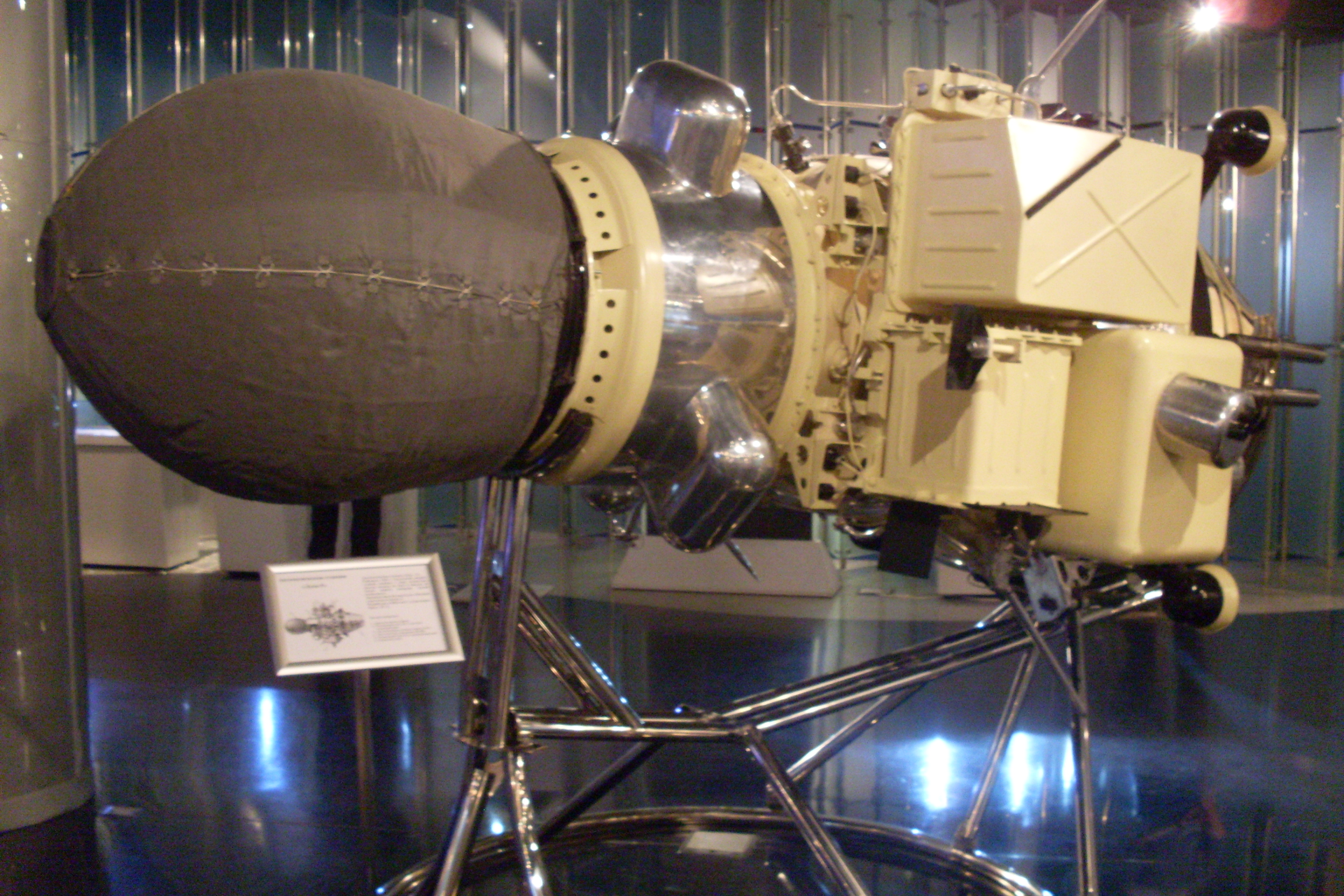 Mockup (1:1) of the spacecraft Luna 9 at Memorial Museum of Astronautics (Moscow).